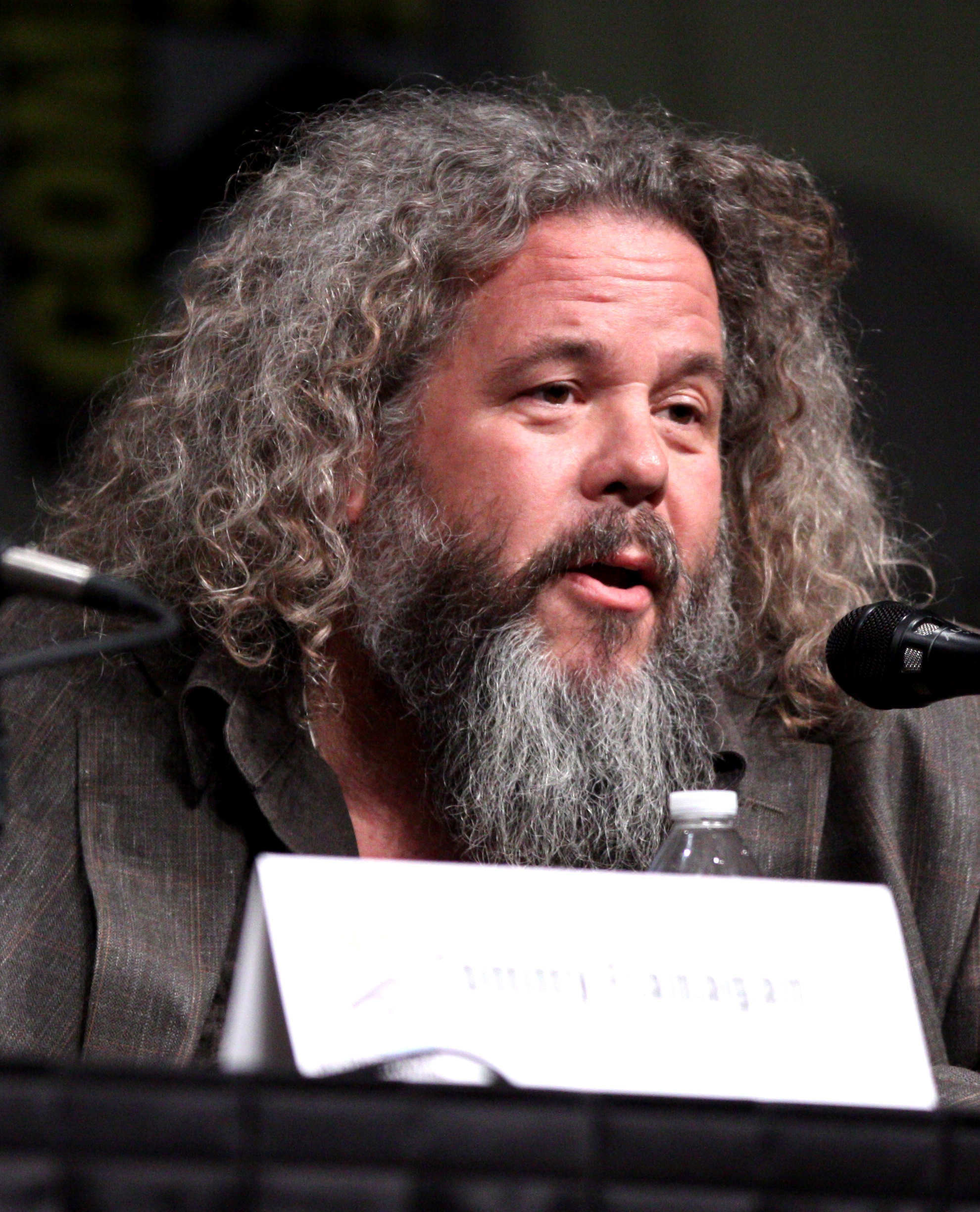 Mark Boone Junior at the 2012 Comic-Con in San Diego.